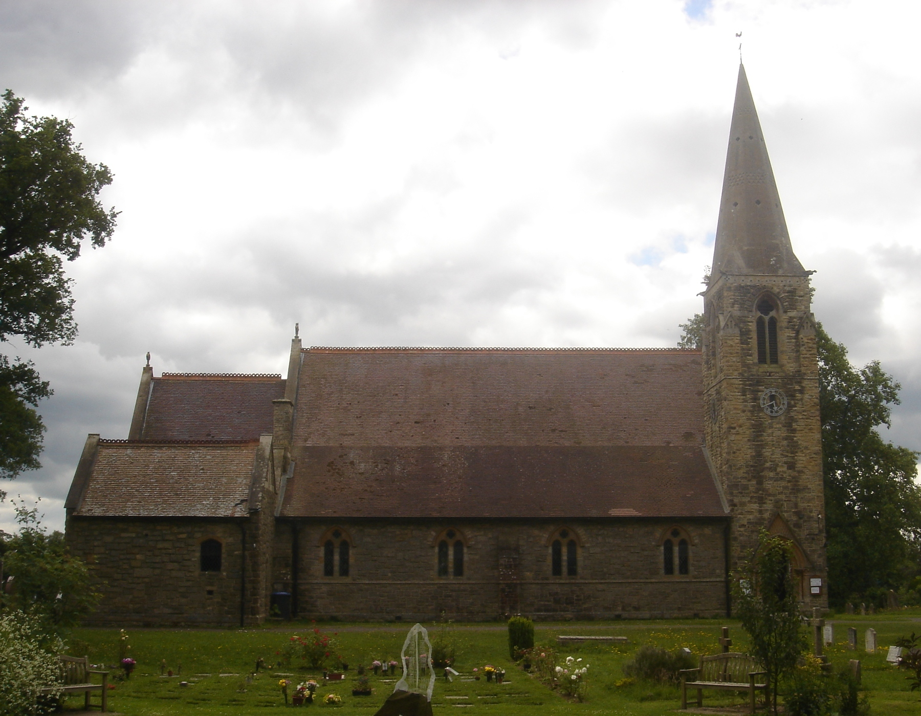 St John the Evangelist's Church, Copthorne, District of Mid Sussex, West Sussex, England. The parish church of the village of Copthorne, between Crawley and East Grinstead; built in 1877 and designed by Matthew Edward Habershon (brother of William Gillbee Habershon).